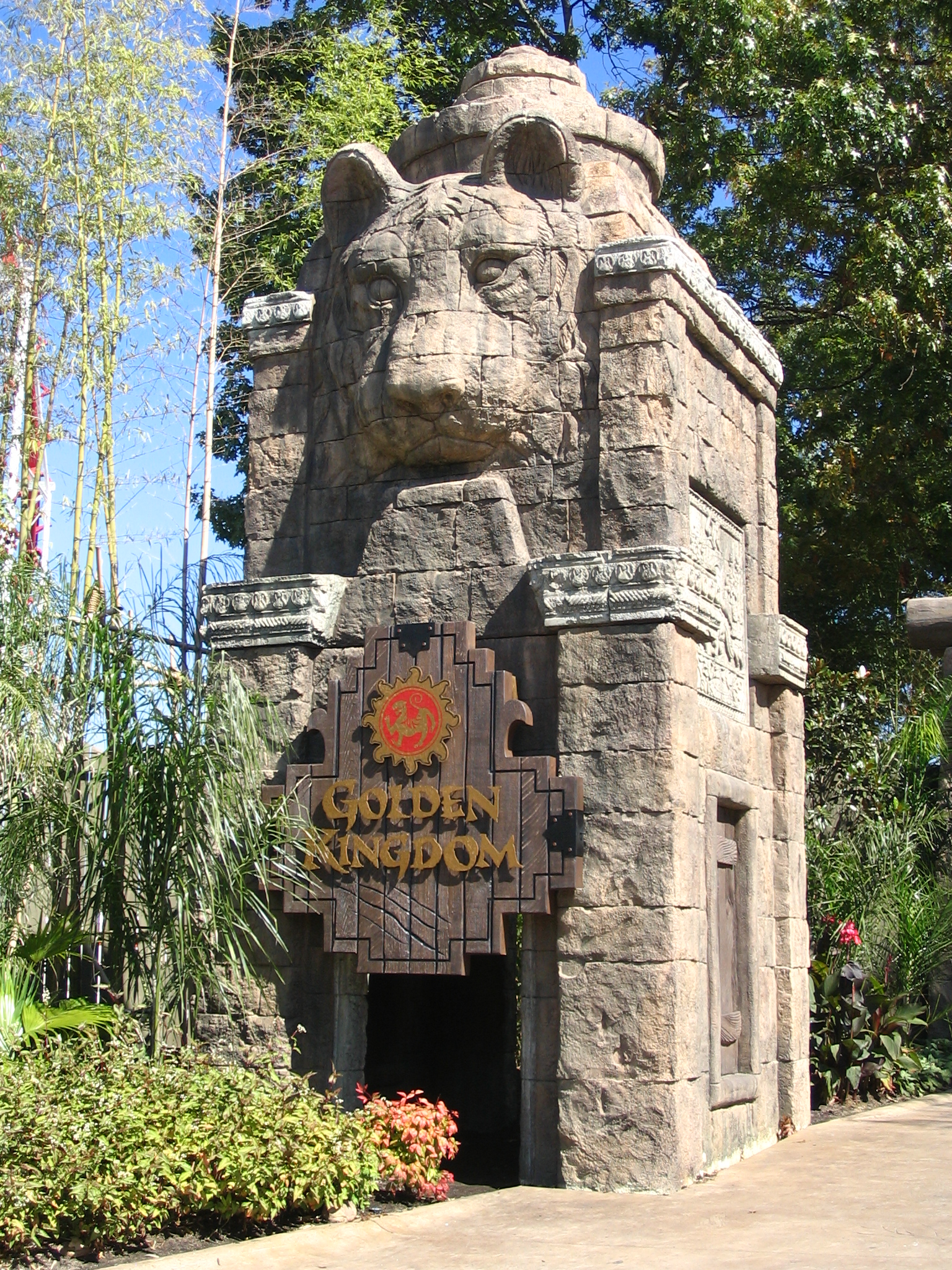 The entrance to the Golden Kingdom (from Boardwalk) at Six Flags Great Adventure. I took this picture. Dusso Janladde 02:46, 17 November 2005 (UTC)